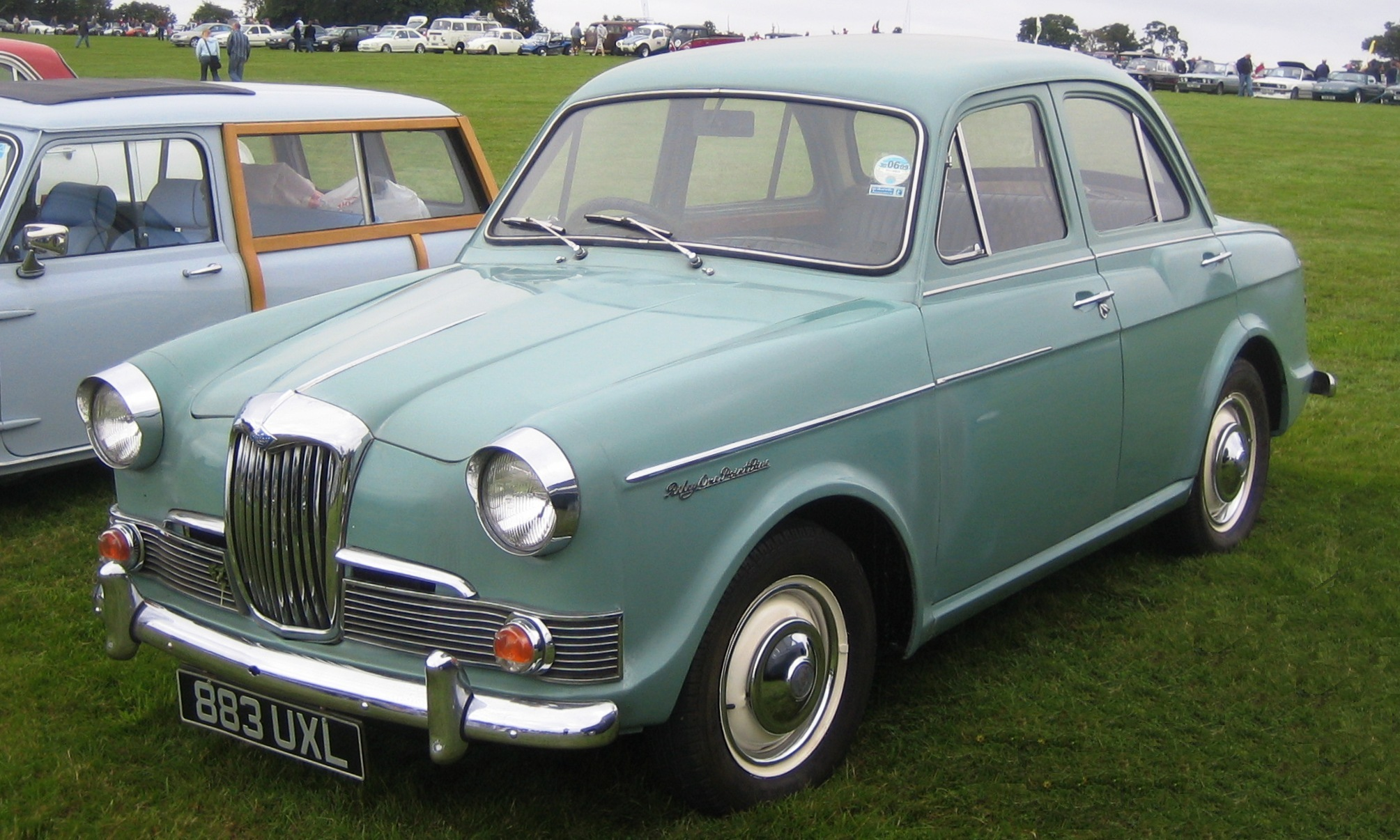 Riley 1.5 at Classic Car Show in Hertfordshire. The car, along with its virtual twin, the Wolseley 1500, used a design that had originally been intended to replace the Morris Minor. The Minor soldiered on, however, and the replacement design was given a larger engine and pushed up market. It was also used in Australia where fins were added for the Morris Major and its Austin sibling.